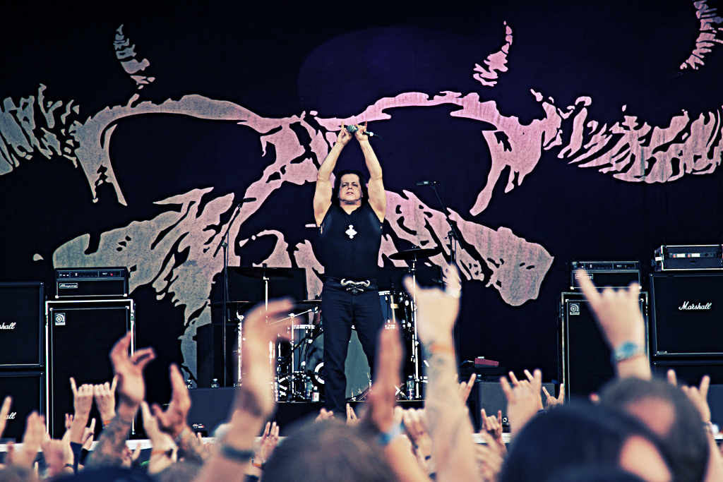 Danzig playing live at Getaway Rock Festival 2011.